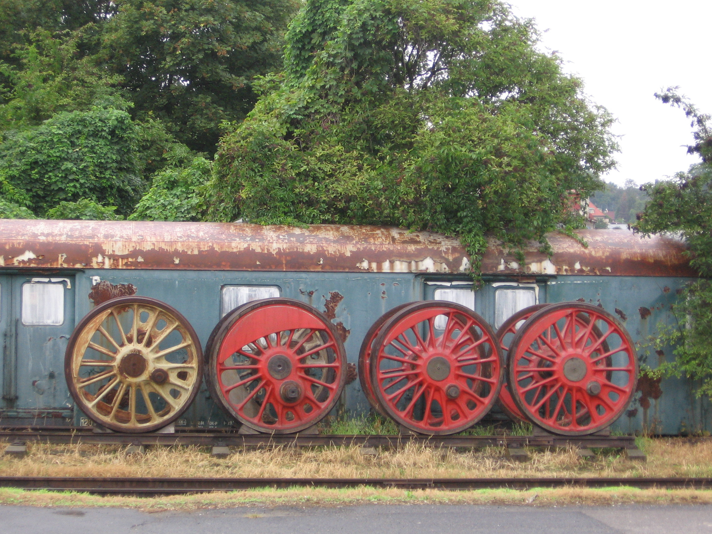 Railway Depot Děčín - wheelsets from Class 475.1 ČSD